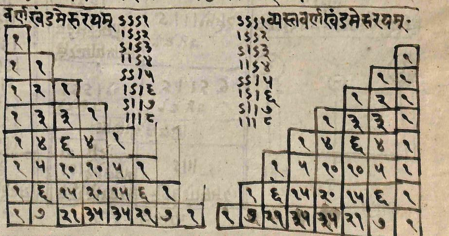 pingala binomial coefficients triangle